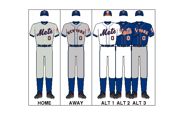 Mets uniforms